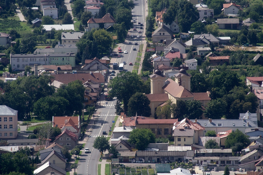 Aerial view of Końskowola, near Puławy, Poland